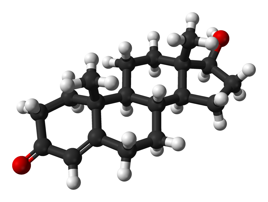 Ball-and-stick model of the testosterone molecule, C19H28O2, as found in the crystal structure of testosterone monohydrate. X-ray crystallographic data from G. Precigoux, M. Hospital, G. van den Bosche. Cryst. Struct. Comm. 2 (1973), 435-439. Model constructed in CrystalMaker 8.1. Image generated in Accelrys DS Visualizer.